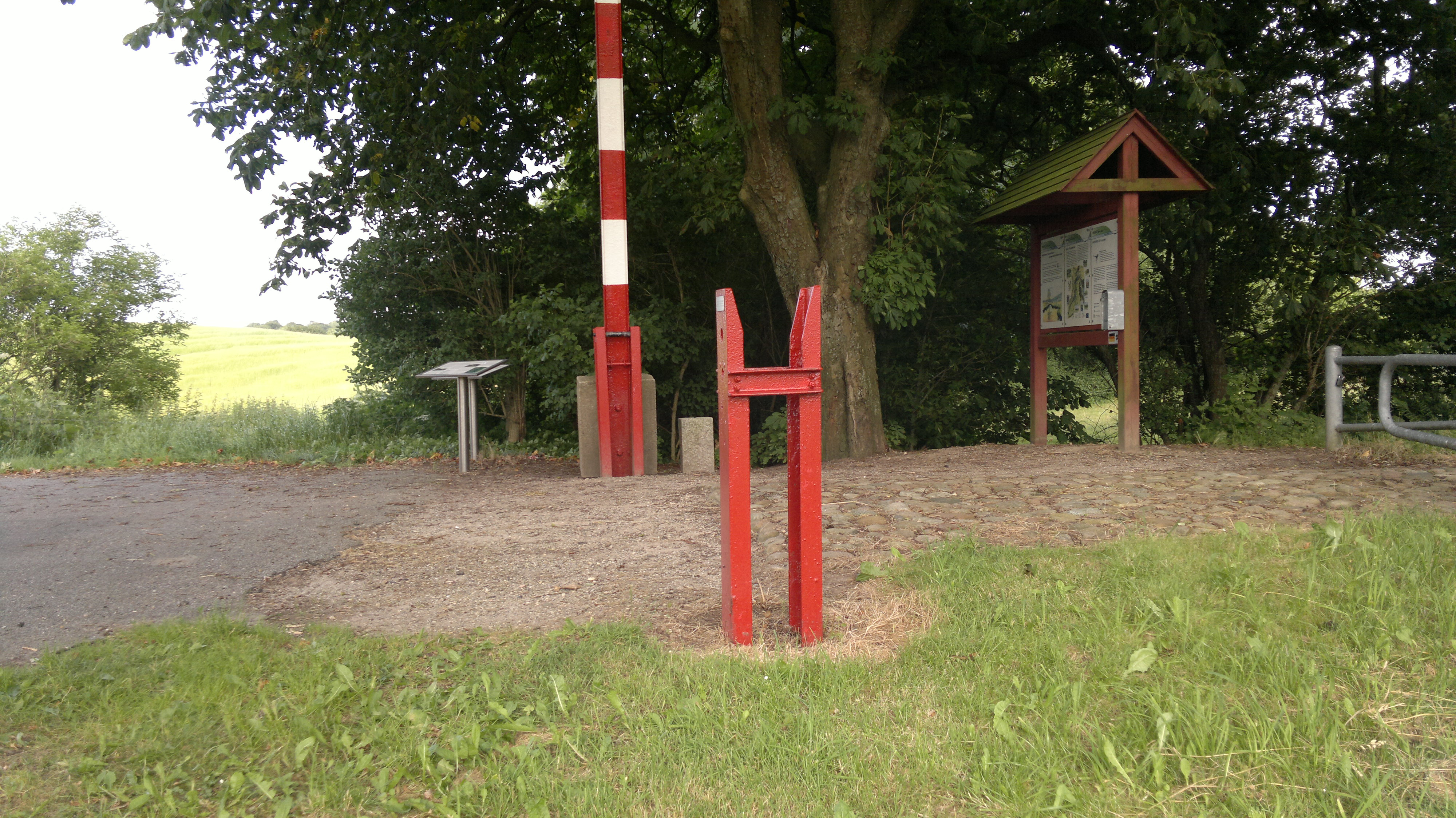 Border post on the border between Denmark and Germany. Its only used as memorial sign today. There is no border guard present today at this location.